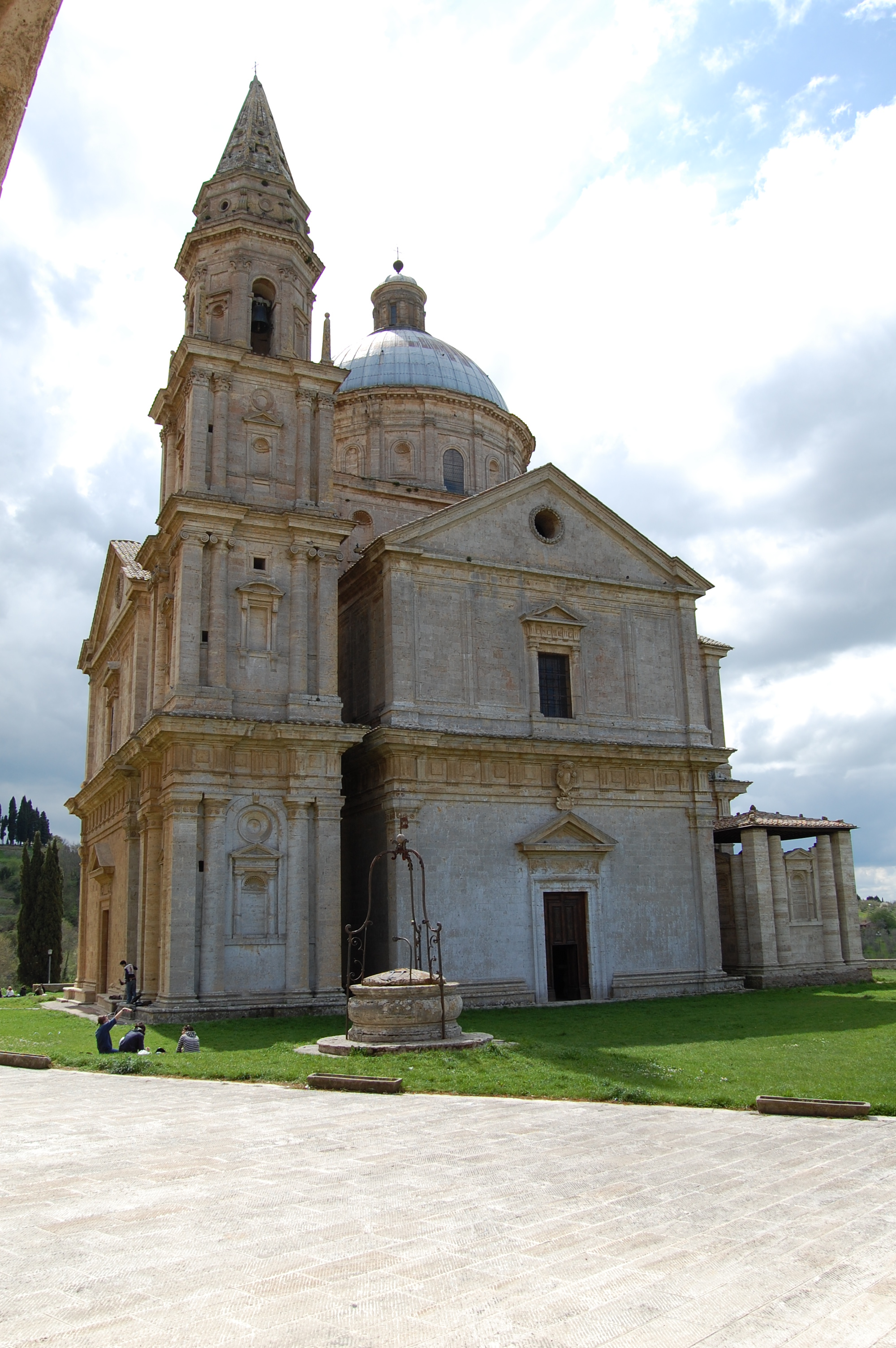 A photo of the facade of San Biagio church in Montepulciano (SI), Italy